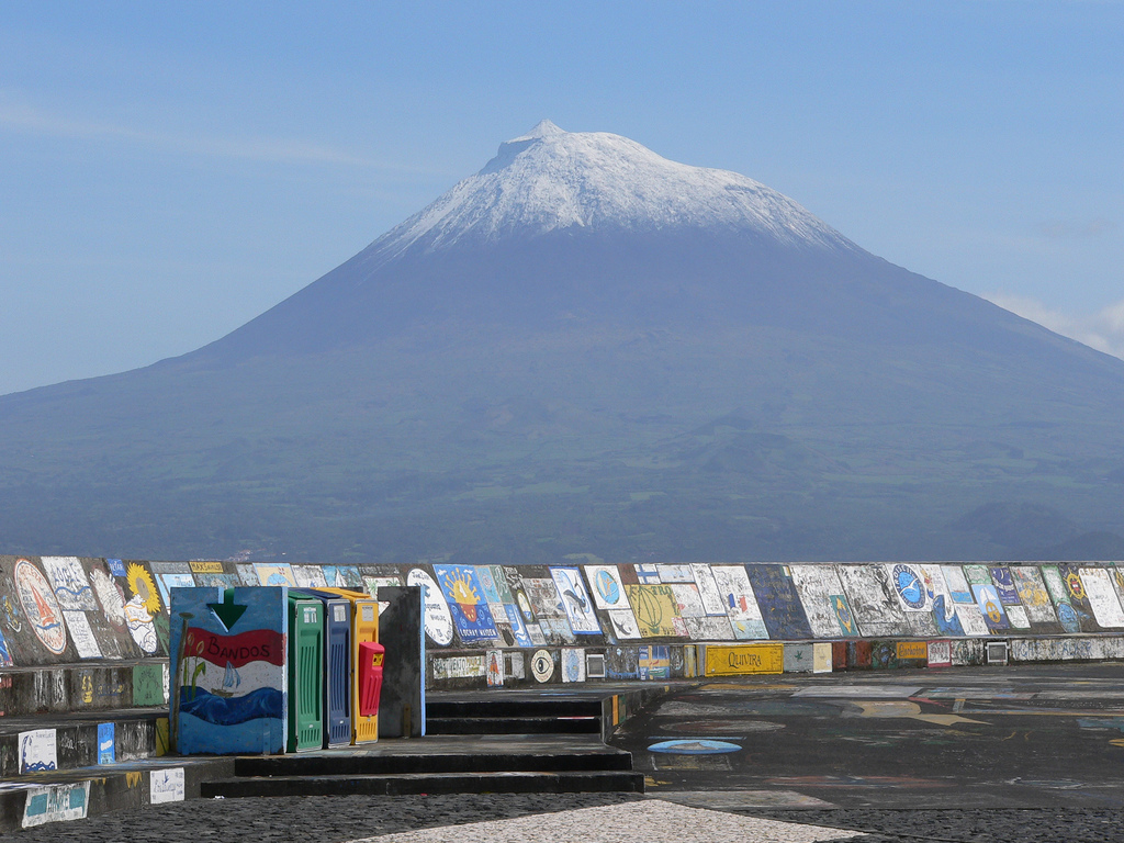 Pico Island seen from the harbour of Horta (Faial), Azores